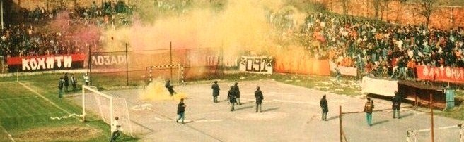 Lozari at the East Stand during derby match,Tikveš 3:0 Pelister